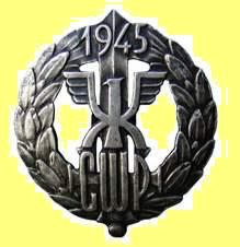 Badge Infantry Training Center 1945.